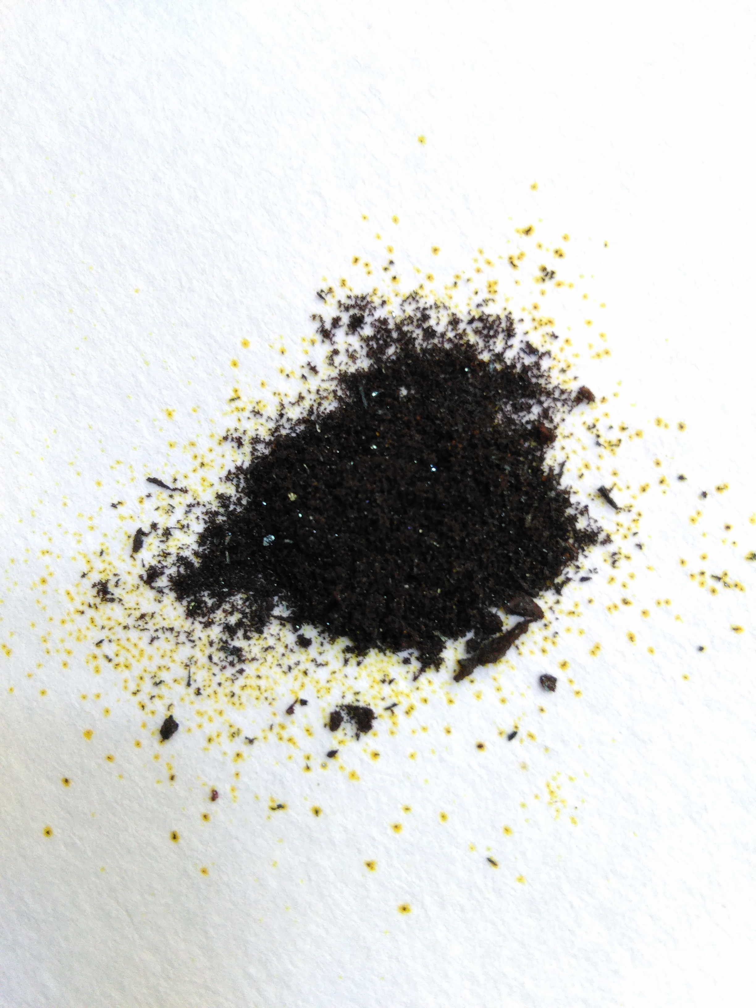 Anhydrous iron(III) chloride, AR. Yellow spot is formed due to the exposure of iron(III) chloride to moisture.